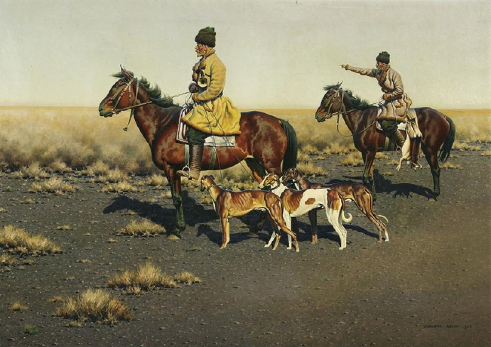 Hetzjagd in der Tundra. Kosaken zu Pferde erspähen Beute in der Ferne